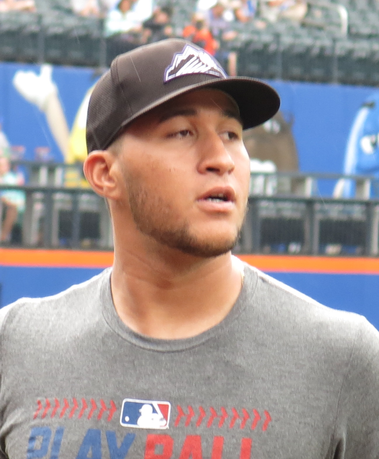 Carlos Estévez of the Colorado Rockies, July 31, 2016.